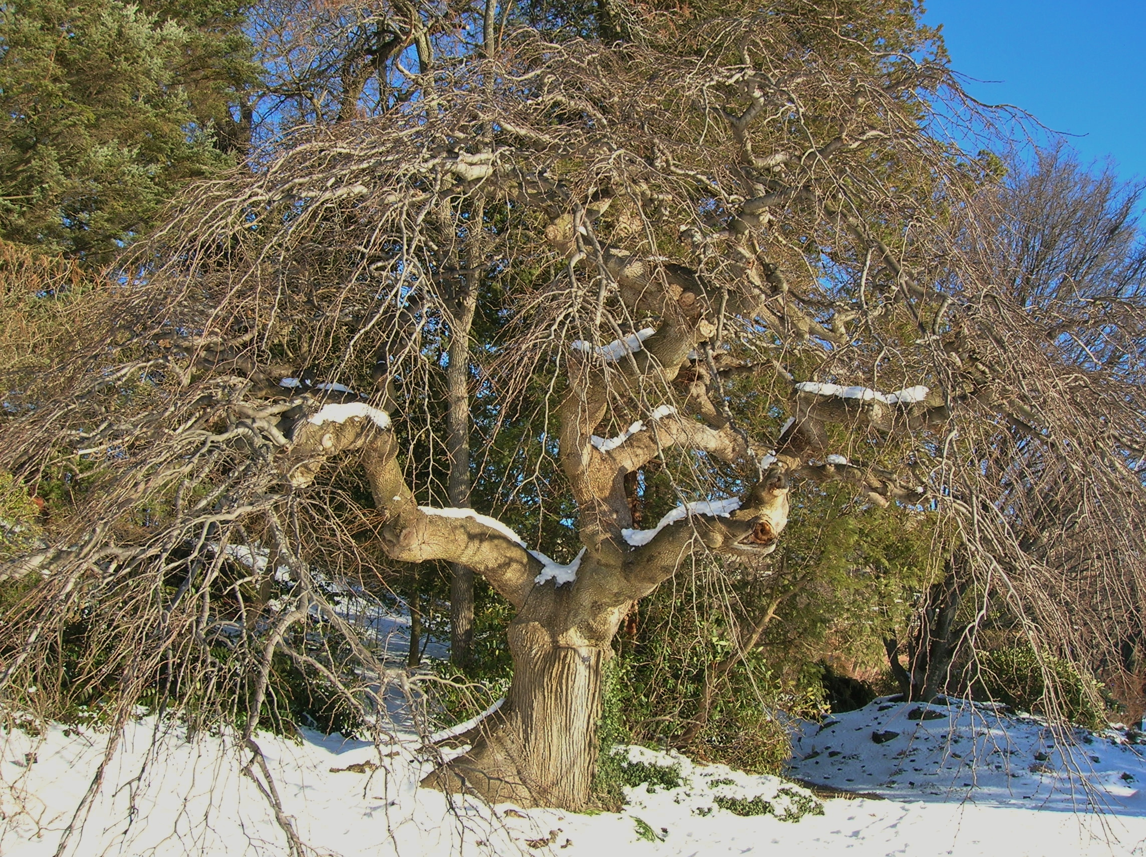 Camperdown Elm tree located at the Smith College campus in Northampton, Massachusetts. Photo taken January 25, 2015.